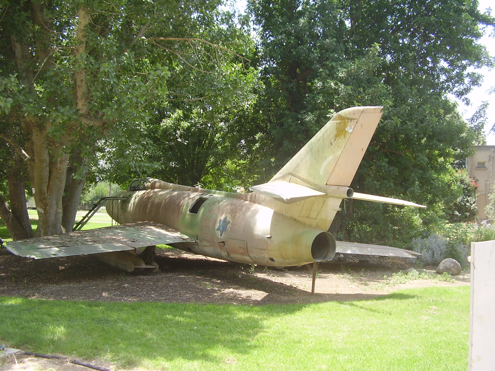 Mystere aircraft in Kibbutz Hulata